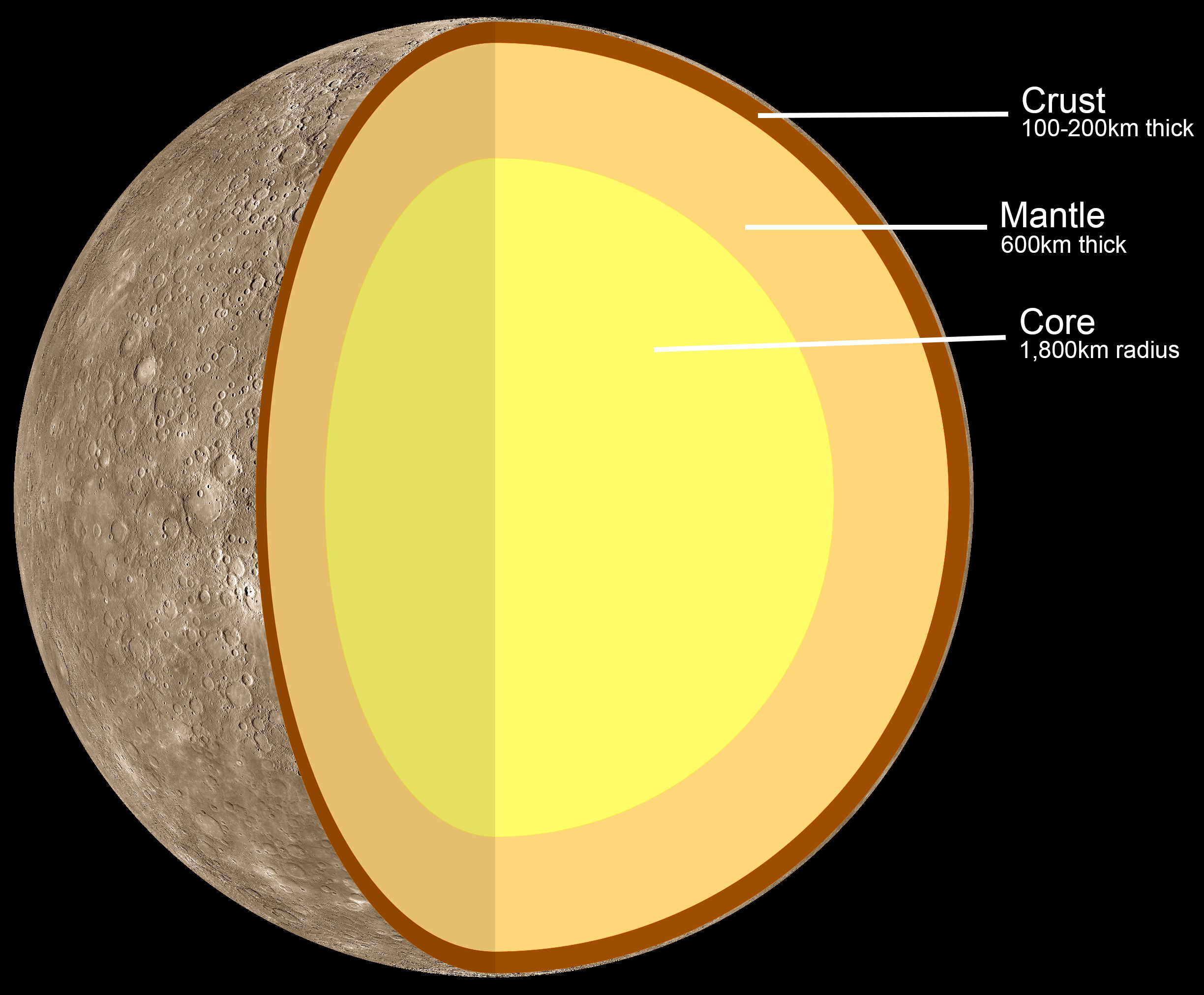 Mercury's internal structure: Crust - 100-200km thick Mantle - 600km thick Core - 1,800km radius